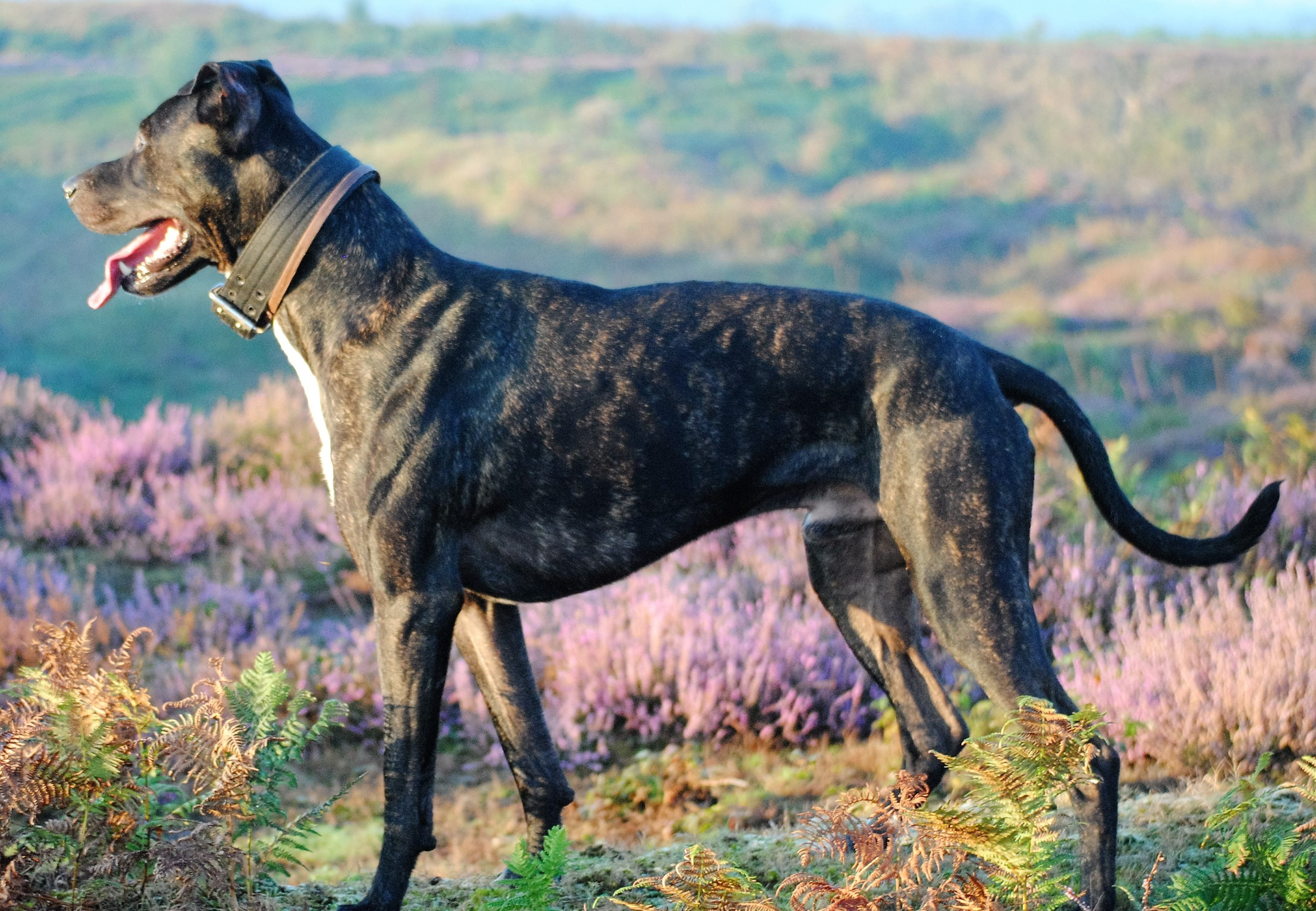 British Alaunt